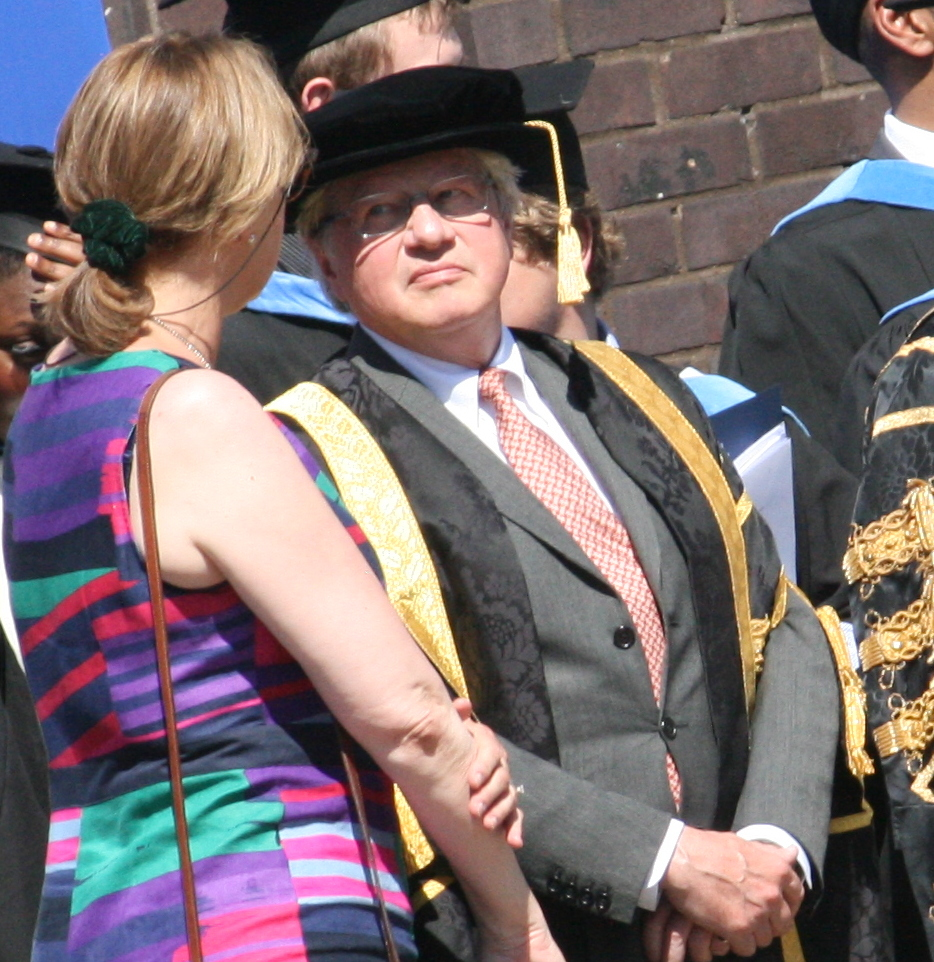 Chancellor (John Wakeham, Baron Wakeham) and Vice-Chancellor (Christopher Jenks) of Brunel stand ready with some graduates